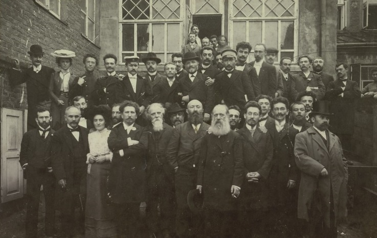 Minsk conference of 1902